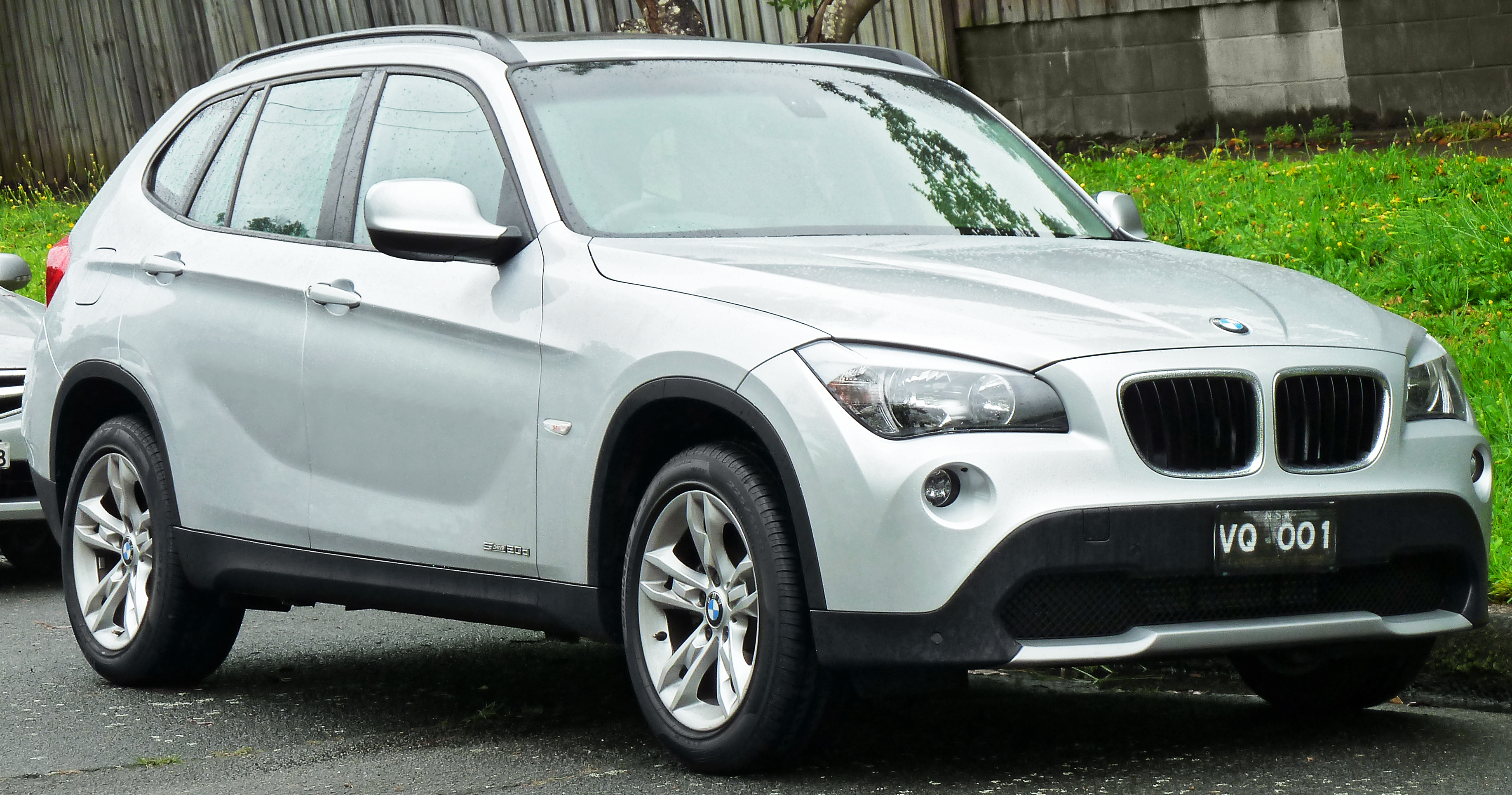 2011 BMW X1 (E84) sDrive20d wagon. Photographed in Roseville, New South Wales, Australia.